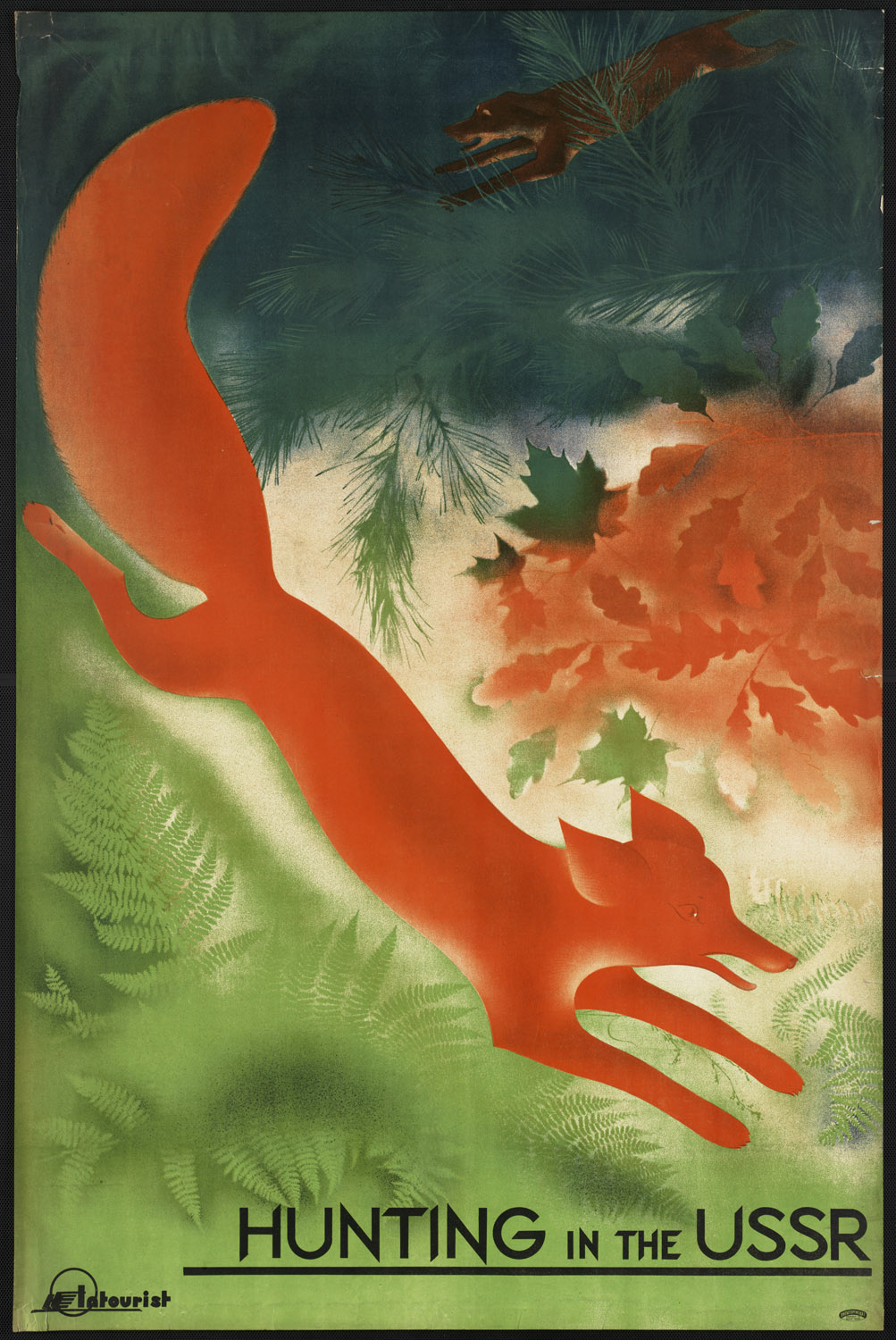 File name:08_05_000254Title:Hunting in the USSRDate issued:1910-1959 (approximate)Genre:Travel posters; LithographsSubject:Tourism; SightseersNotes:Soviet Union: Intourist Publisher; Title from item.Collection:Boston Public Library, Vintage Travel PostersLocation:Boston Public Library, Special CollectionsRights:Rights status not evaluated